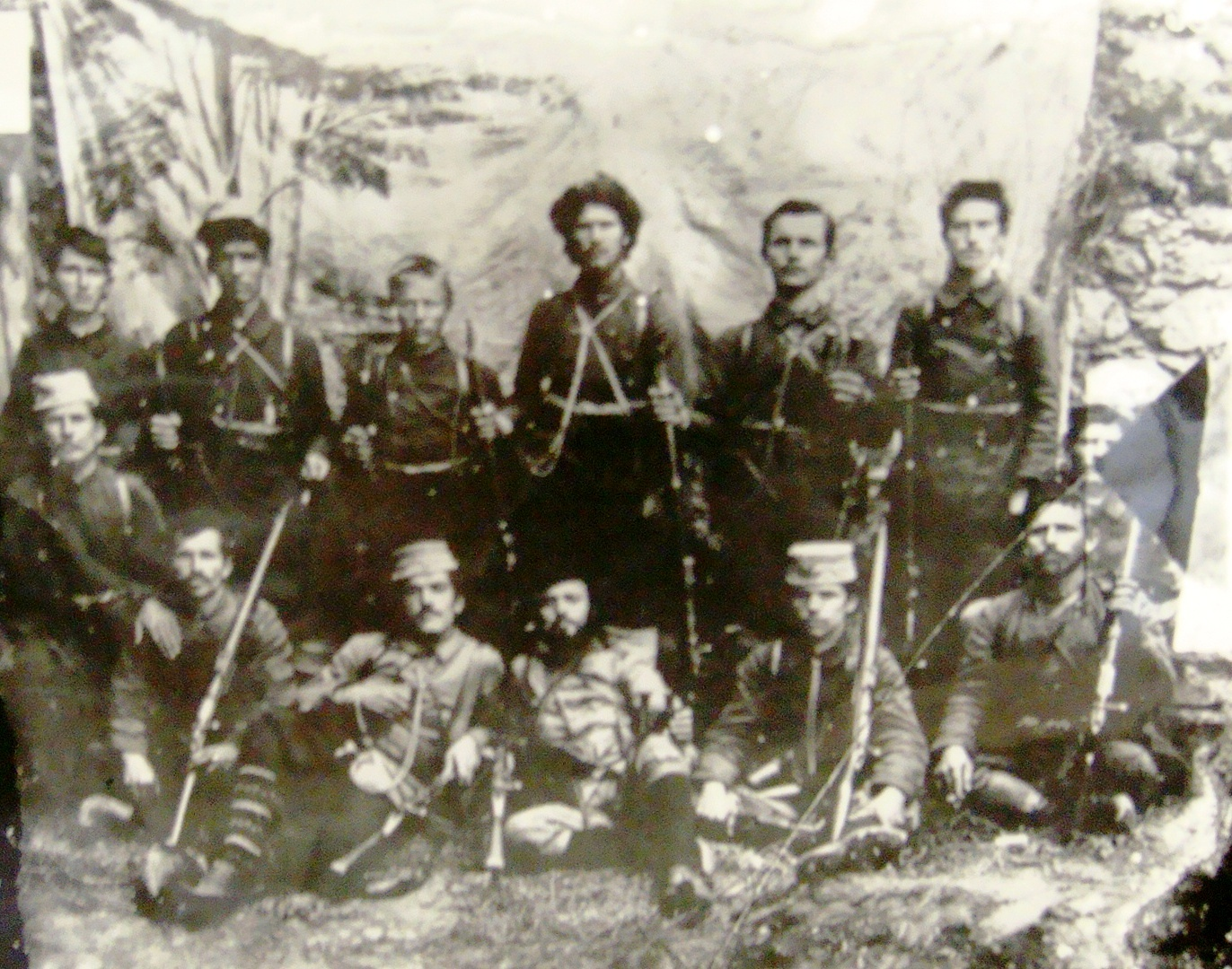 Ilinden voivode from Kastoria: Pando Kljashev and Korshonov with their detachments. (Perch, 1898) (damaged glass plate) This media file is produced by Wikipedian in Residence in Category:Wikipedian in Residence at DARM in 2016.